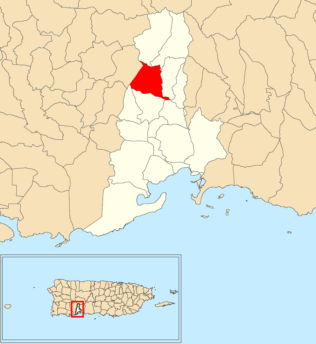 Sierra Baja, Guayanilla, Puerto Rico locator map